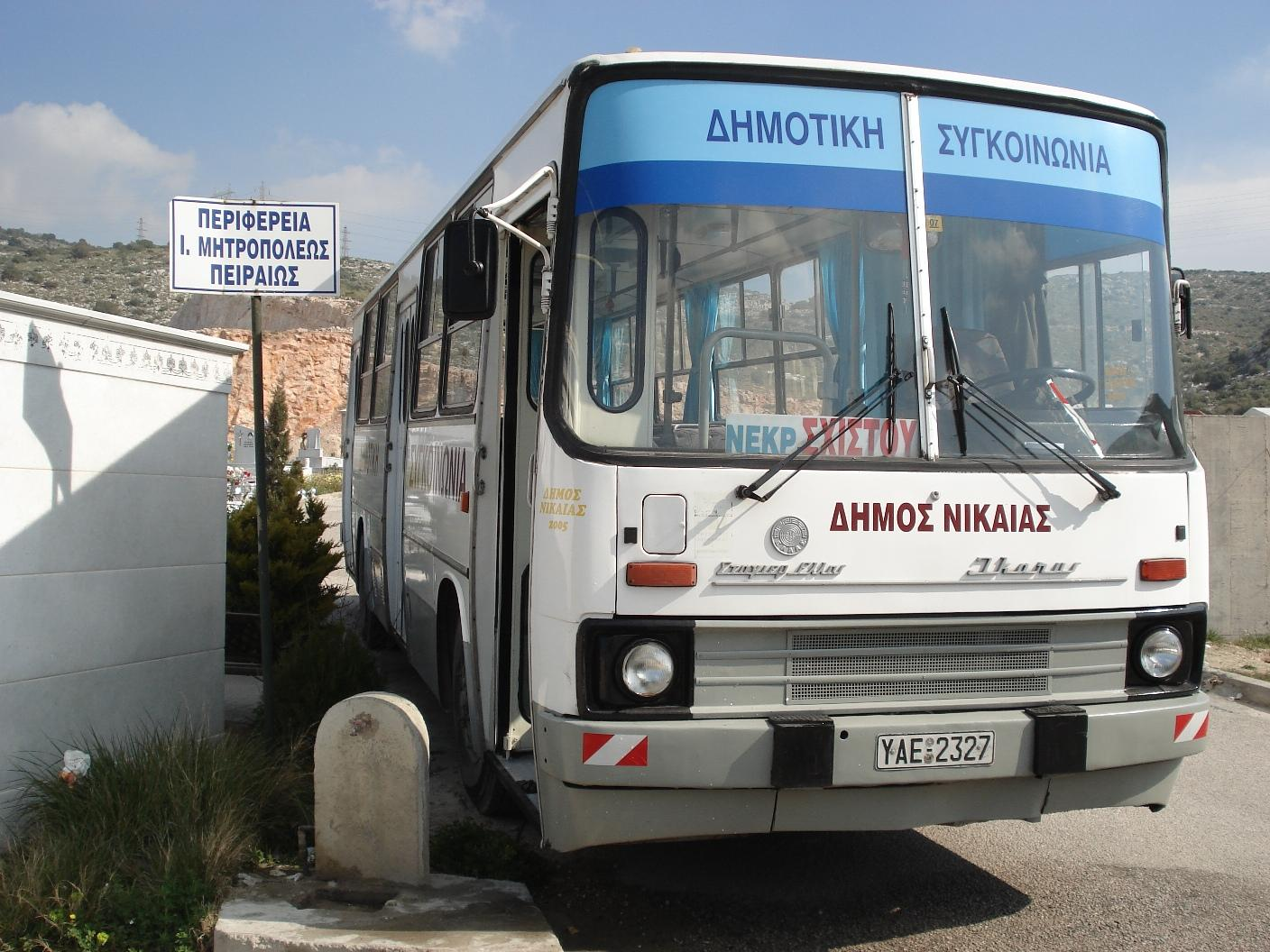 Ikarus 260 bus. Athens, Greece.